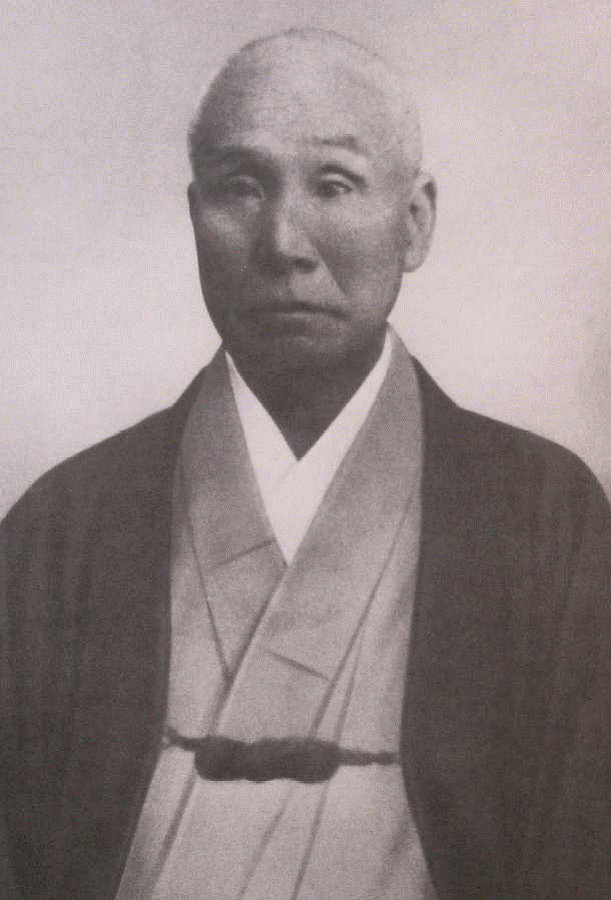 Toyohara Kunichika, 1897, Hiraki